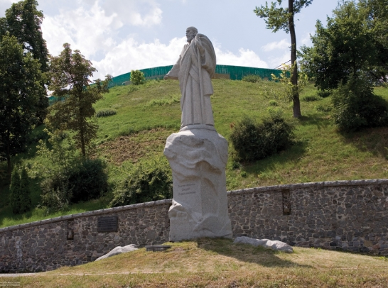 The monument is erected in Kiev, year 2000. The monument is 9 meters high. The authors are: V. Shvetsov, Boris Krylov, Sidoruk Oles and N. Zharikov.